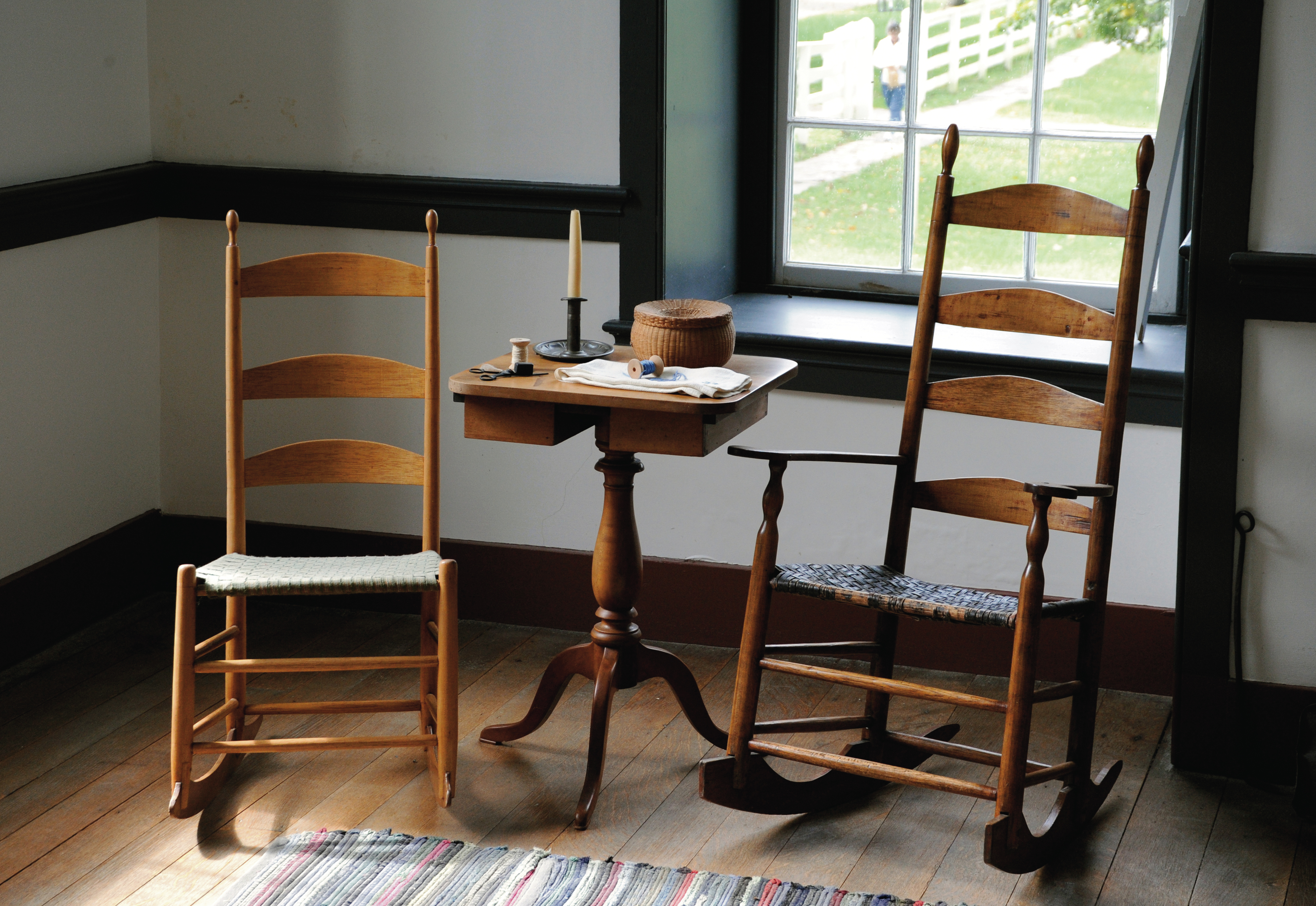 A restored Shaker Village located near Harrodsburg, KY.